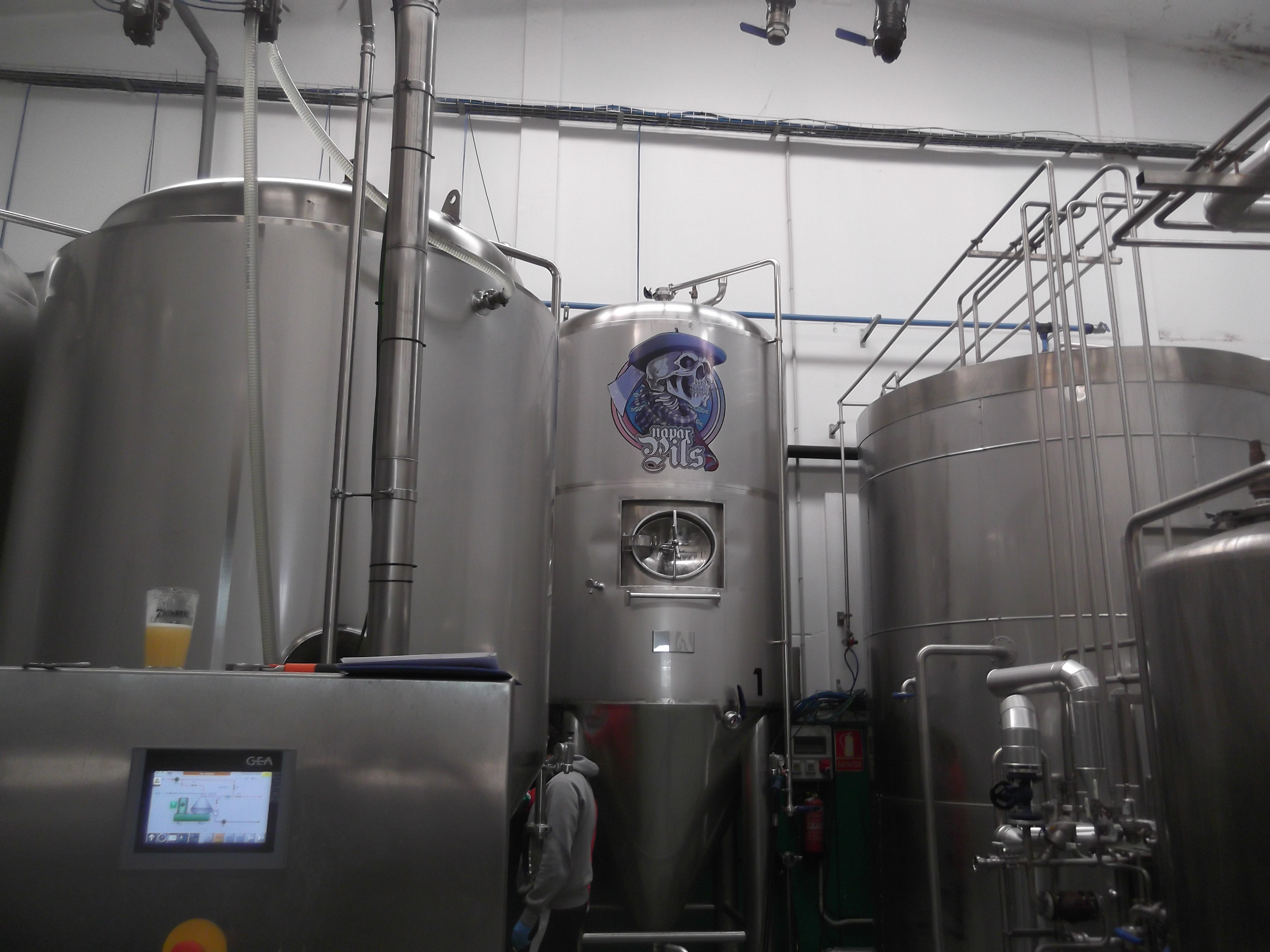 Inside Naparbier Factory in Noain (Navarra - Spain)